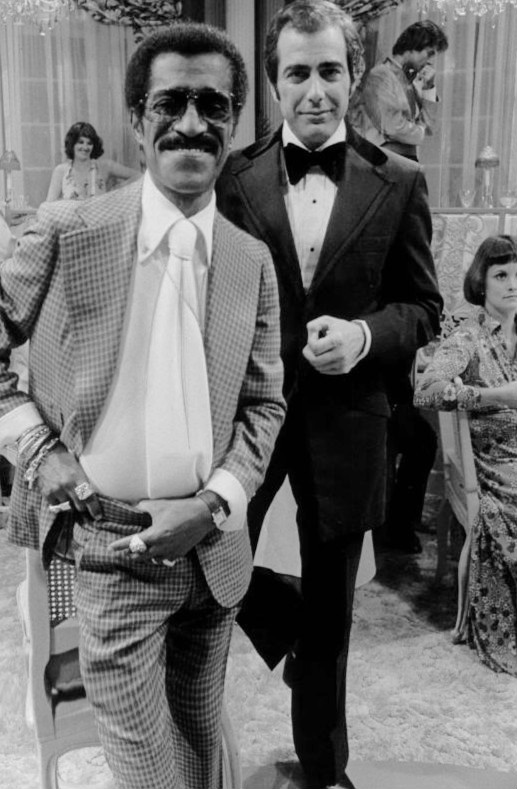 Publicity photo from the television daytime drama Love of Life. Sammy Davis, Jr. is shown with Jerry Lacy in a guest-starring role.